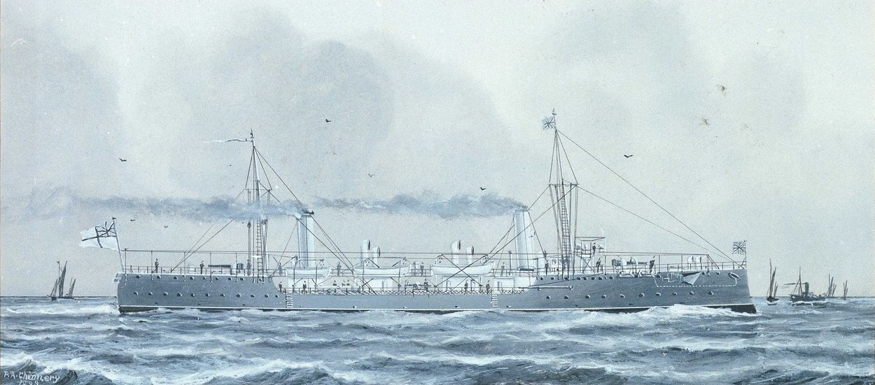 HMS Dryad Floated at Chatham 25th November 1893. By Miss Cecil Heneage Daughter of Sir Algernon C F Heneage, KCB, Commander in Chief, Rear Admiral G Digby Morant, Admiral Superintendent, J A Yates Esqre, Chief Constructor Signed by artist.